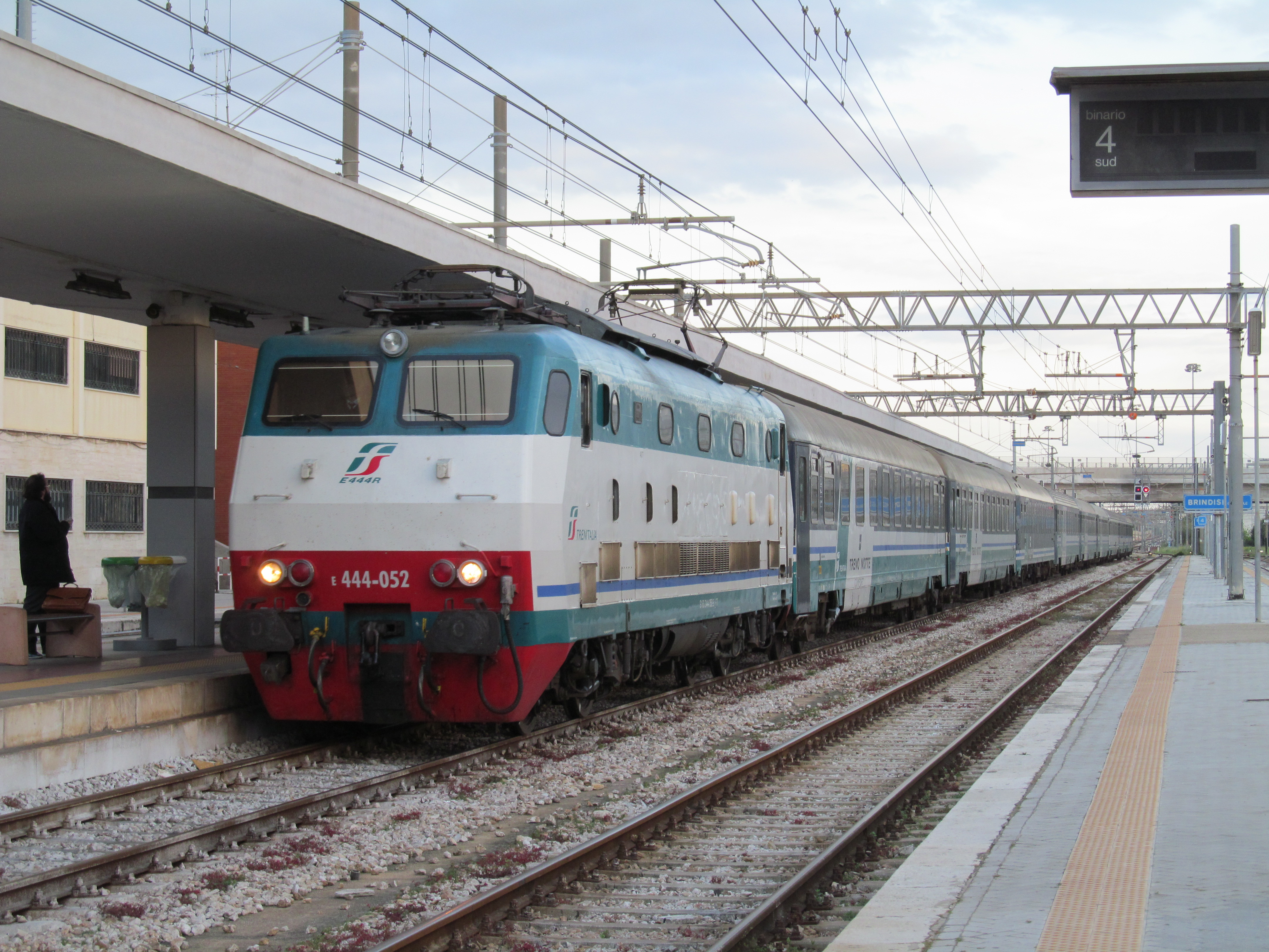 Trenitalia 444052 at Brindisi with an Intercity Notte (Night train) to Milan